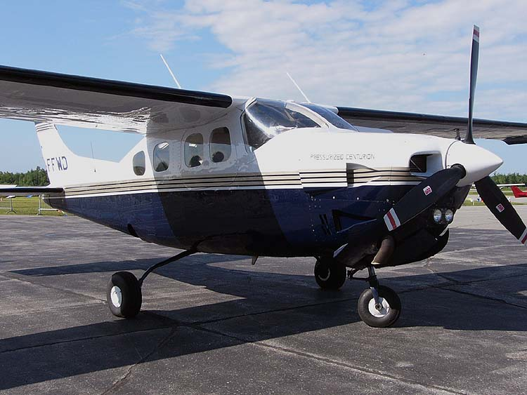 Cessna P210N Pressurized Centurion (C-FFWD) I took this photo at Sherbrooke QC on 01 July 2006